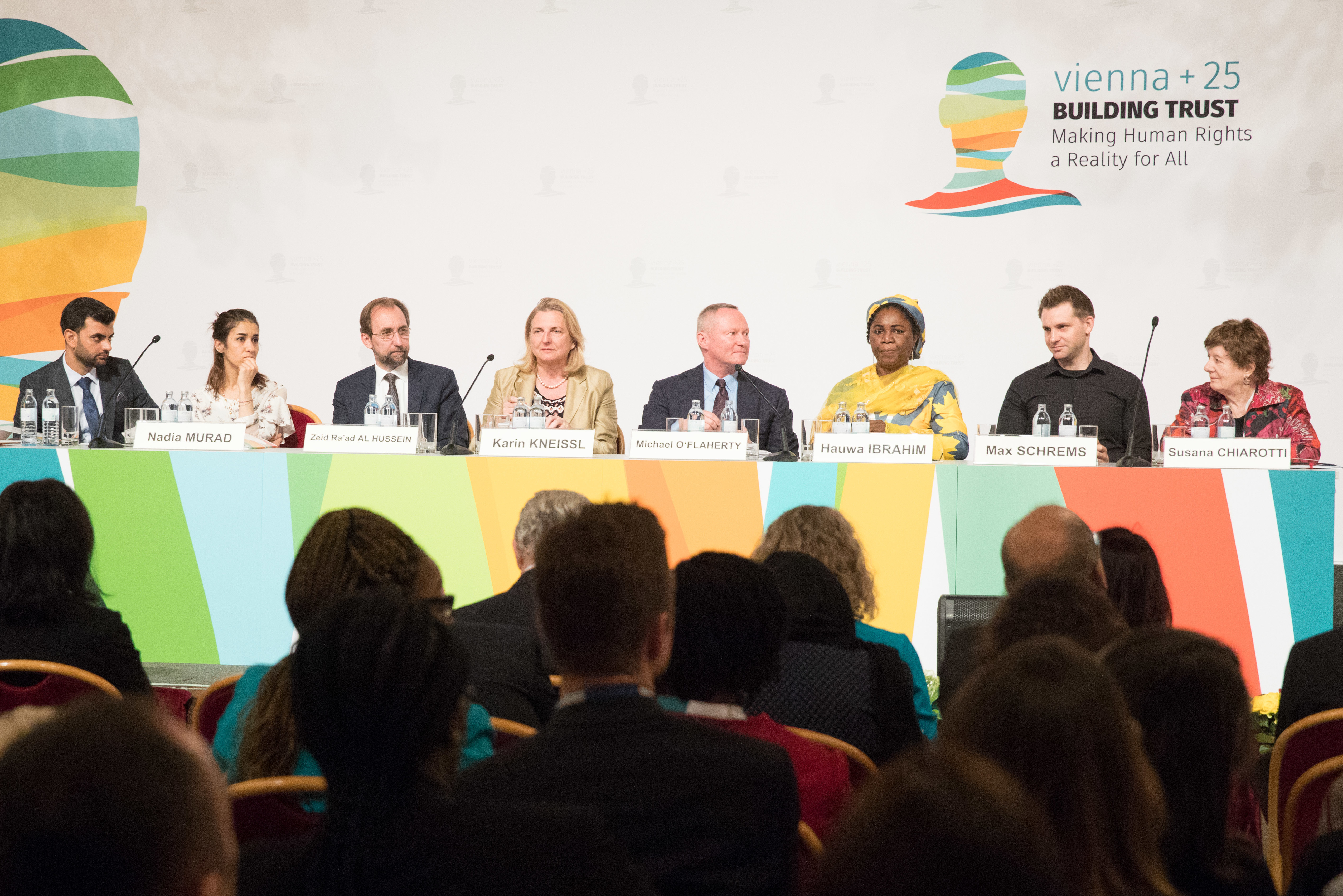 Karin Kneissl centre, Hauwa Ibrahim 2nd right Vienna+25: Building Trust – Making Human Rights a Reality for All in the Austrian City Hall on 22 May 2018. left to right: 1 ?? 2 Nadia Murad 3 Zeid Ra'ad Al Hussein 4 Karin Kneissl 5 Michael O'Flaherty 6 Hauwa Ibrahim 7 Max Schrems 8 Susana Chiarotti (C) Rauchenberger.